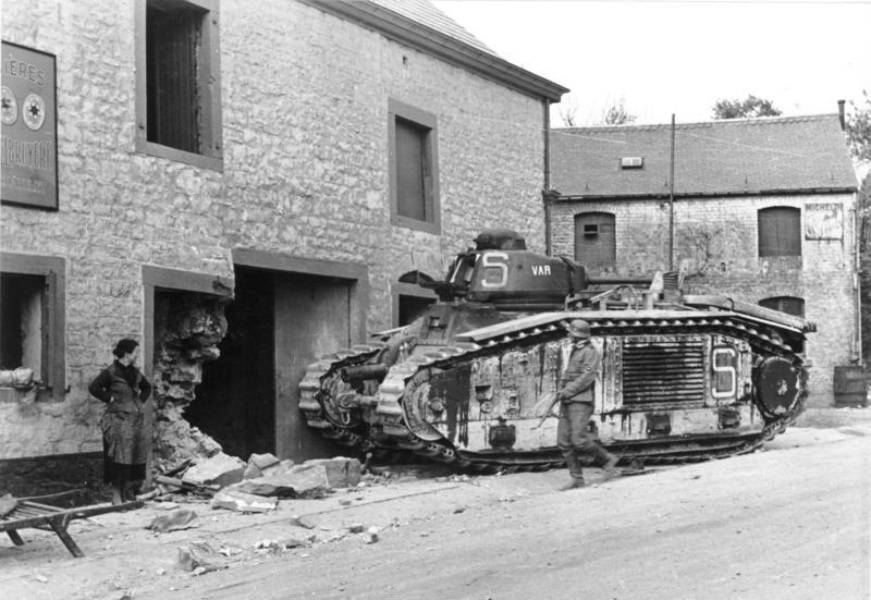 A belgian civilian and a german soldier look at an abandoned french heavy tank "Char B1" named "VAR" (37th battalion) and the damage at the close-by home in the village of Ermeton-sur-Biert near Namur. Sometime after 14th May 1940